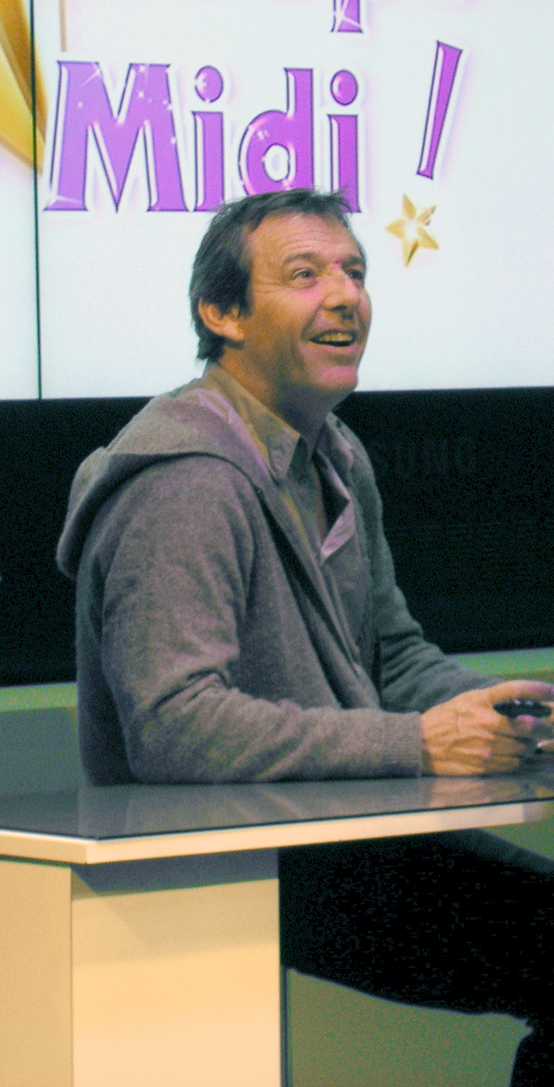 French radio and TV host, producer and actor Jean-Luc Reichmann at TF1 stand of 2012 Mondial de l'automobile de Paris (Paris Motor Show), 2.2 pavillion of porte de Versailles convention center, Paris.